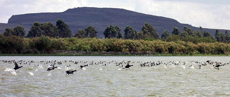 Red-knobbed Coots at Lake Naivasha